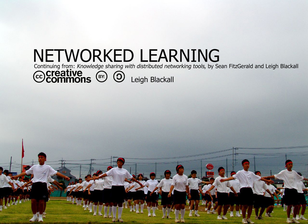 Original photo by Peterme. Our earlier attempts to use the Internet for learning were limited by our common understanding of what, where and how learning takes place. Most of us imagined the classroom and everything that goes on within it, and looked for tools that could help us replicate that online. We found the LMS. The LMS took away our fears of Internet anarchy, and promised educational control - or managed learning. Few recognised the oxymoron. Then we focus on content, spending huge amounts on developing content. sharable learning objects, all meta data tagged and copyright managed. We got what we wanted, no one could (or would) use our stuff!